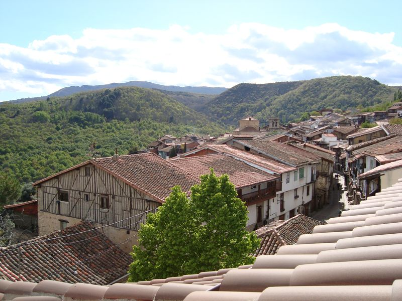 A general view of Mogarraz (Salamanca, Spain)